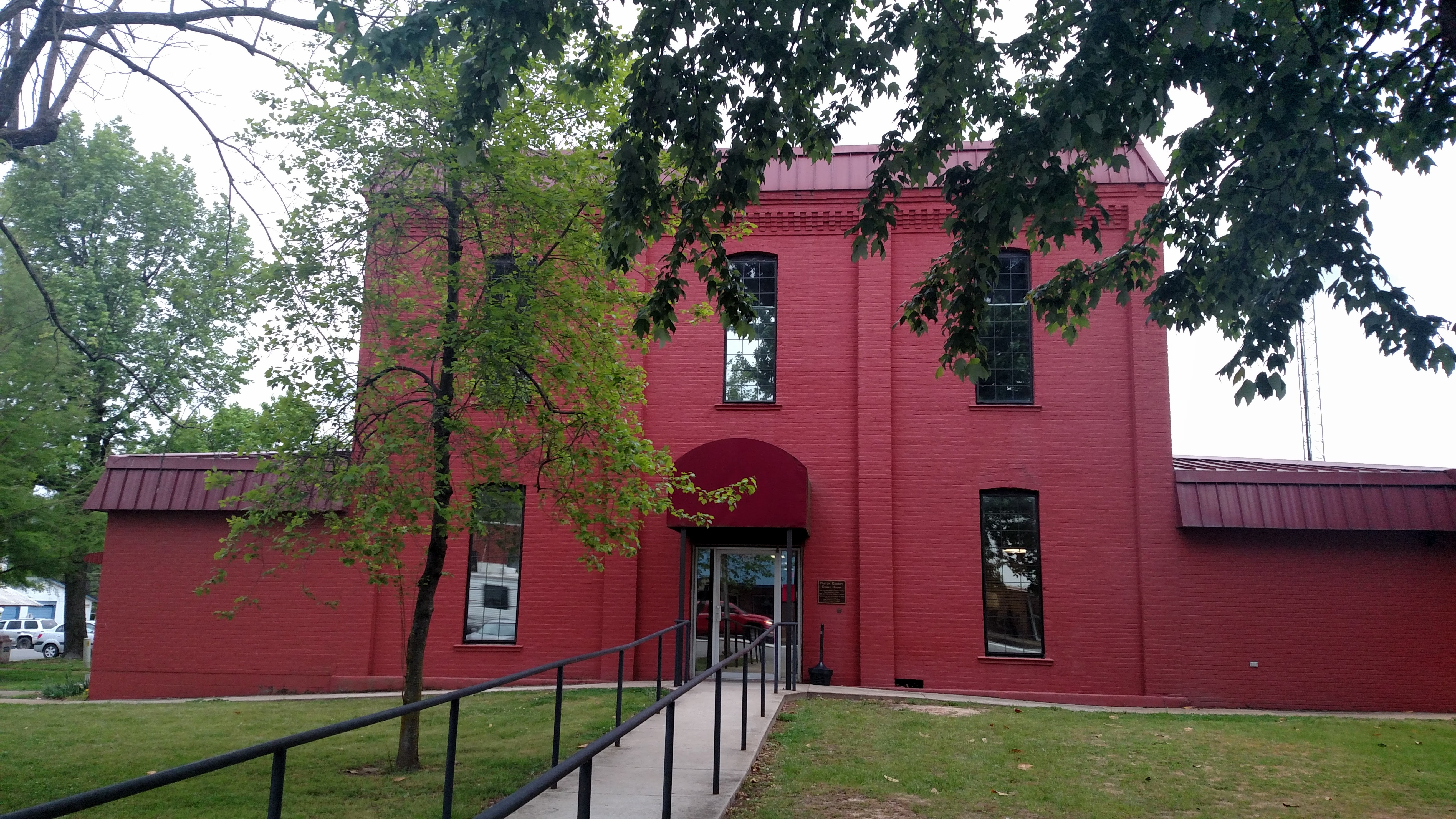 Courthouse facade in Salem